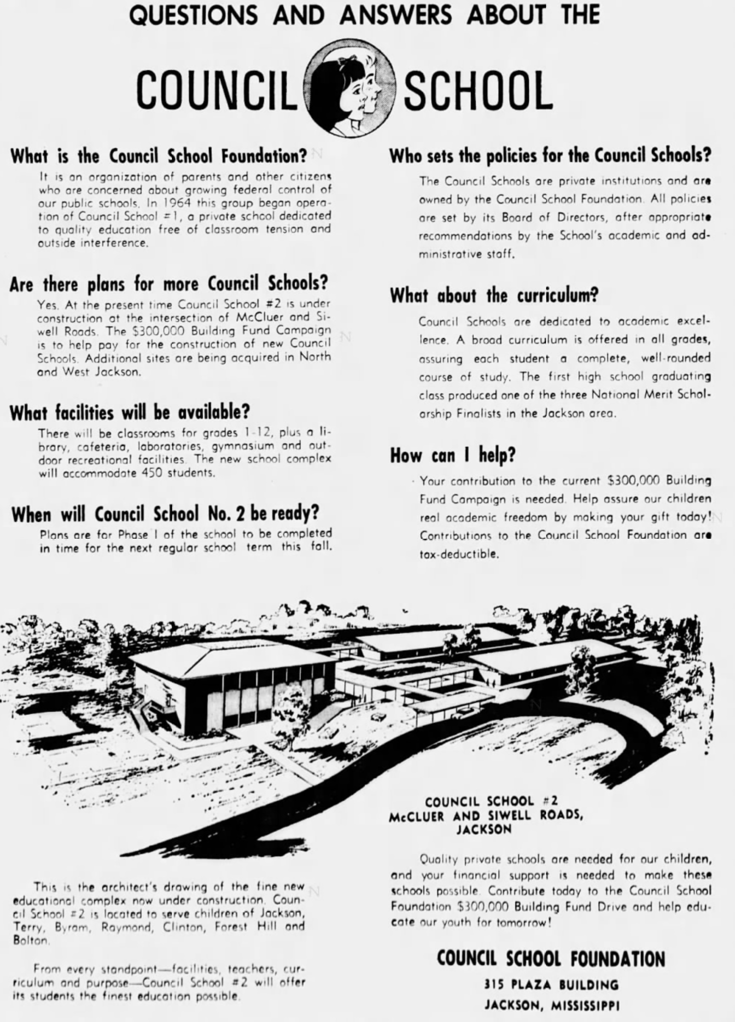 An advertisement for Council Mcluer, a segregation academy now known as